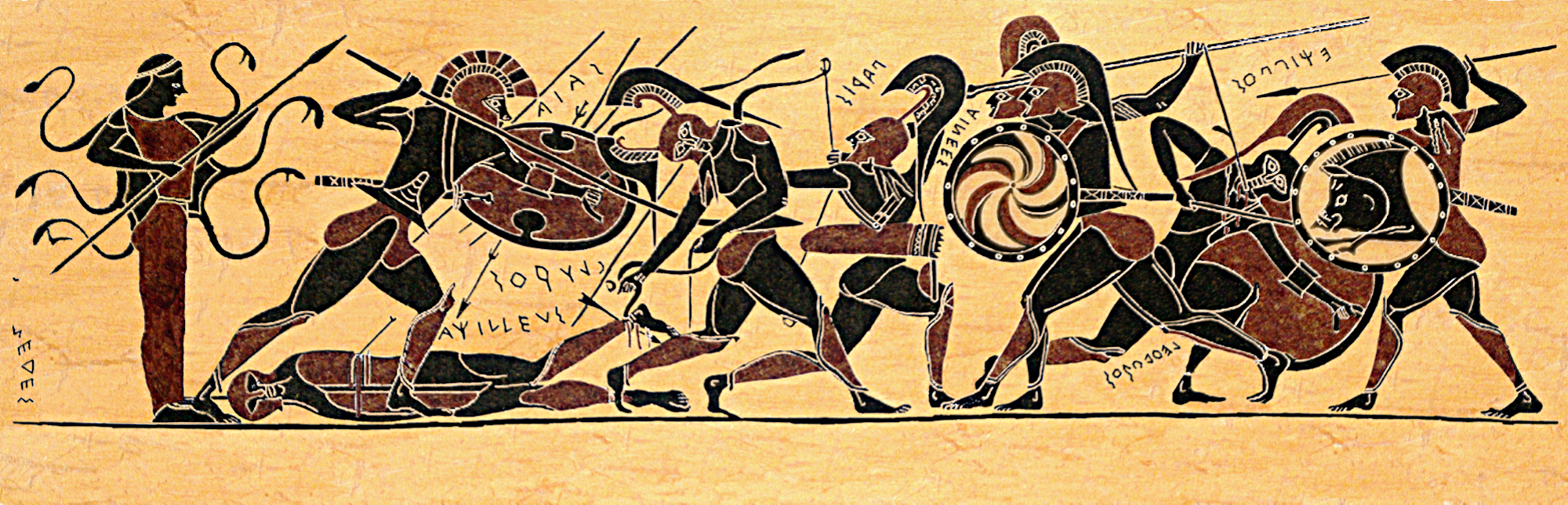 Ajax (Aias) fights Glaukos over the dead body of Achilles, while Paris and Aeneas look on. Helping Ajax is Athena with a snaky aegis. A Chalchidian Amphora from 540-530 BCE, formerly in the Pembroke-Hope Collection in Deepdene, England, now lost. Drawing is based on A. Rumpf, Chalkidische Vasen (Berlin/Leipzig 1927), pl. 12. The source of the original image is a drawing based on a lost Greek Vase from 540 BCE. A. Rumpf, Chalkidische Vasen (Berlin/Leipzig 1927), pl. 12 The vase was formerly in the Pembroke-Hope collection in Deepdene, England. See LIMC (Lexicon Iconographicum Imaginum Mythogiae Classicae) “Achilleus” no. 850. See Kemp-Lindemann 220. (J. D.BEAZLEY ATTESTED LONG AGO THAT ONCE THIS AMPHORA WAS PEMBROKE, BUT NEVER HOPE!! -- M. Iozzo). The original image of the black and white drawing was uploaded and released to the public domain to by user Kenmayer on 9 Nov 2015. This version of the image has been digitally resized and fully colorized by Kathleen Vail (user:AishaAbdel) in an attempt to recreate the colors used by the Inscriptions Painter as faithfully as possible.